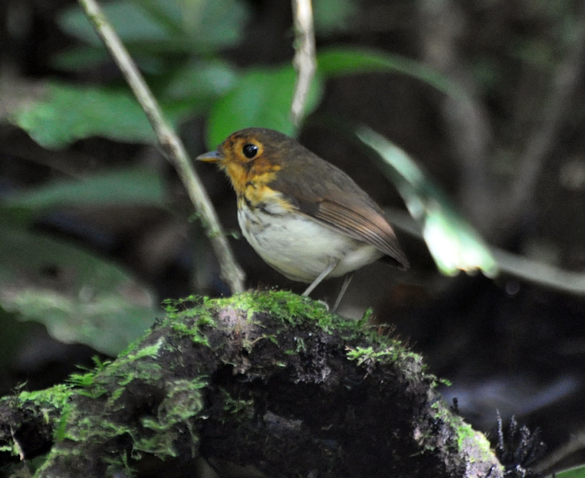 A Ochre-breasted Antpitta in Ecuador.